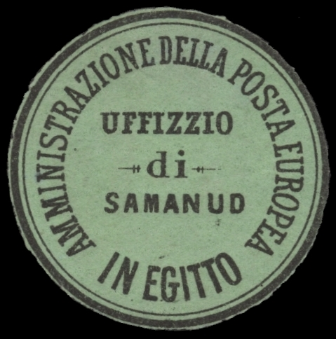 Egypt, Interpostal Seal, POSTA EUROPEA, Kehr Type I 1864 from the city Samanud